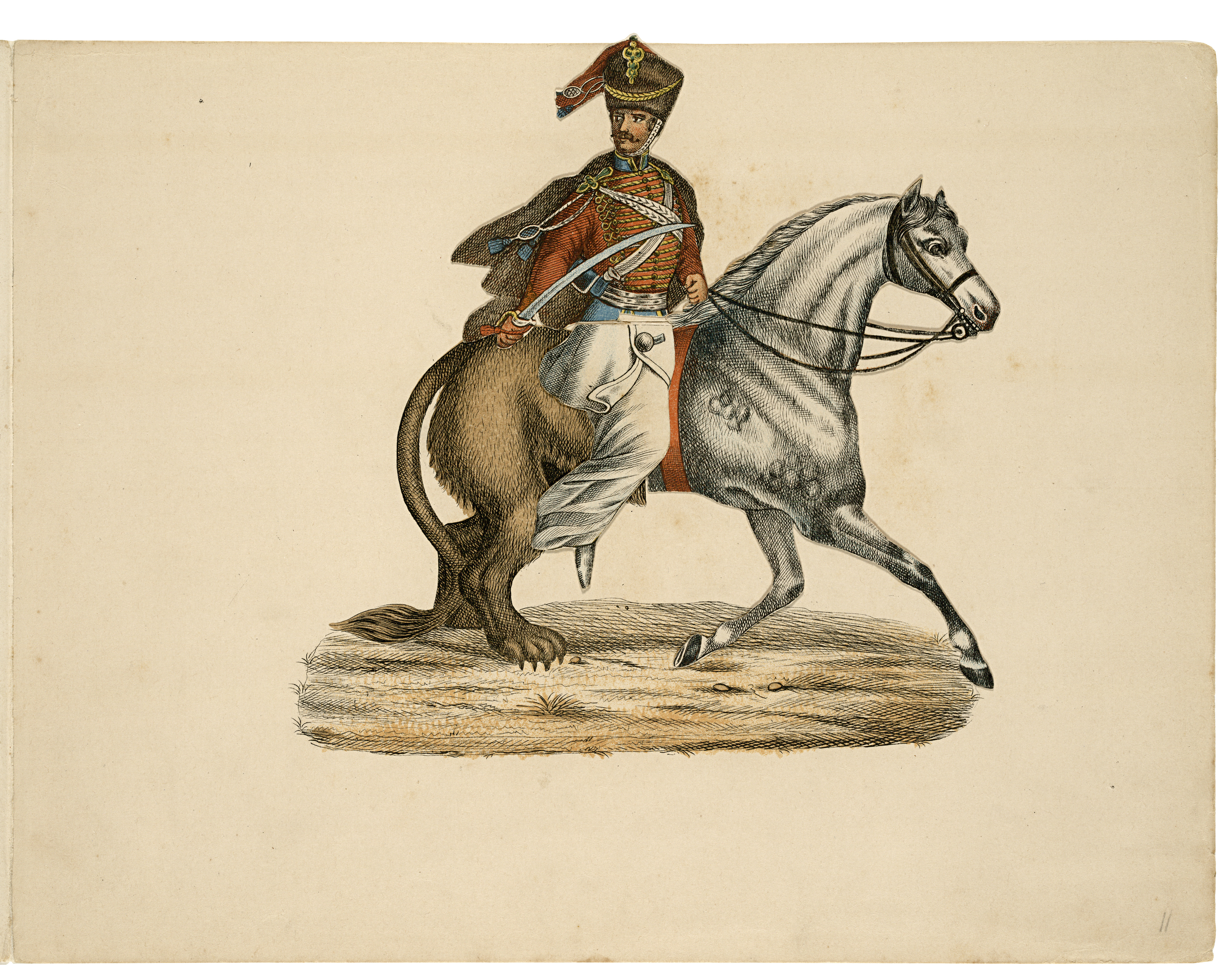 Combination of four elements from De nieuwe rijschool (the new riding school) from 1856